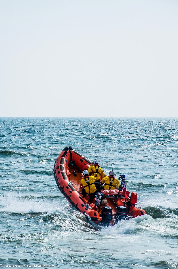 Sandown & Shanklin Independent Lifeboat 'The Dove II' launching on a training session in 2013.